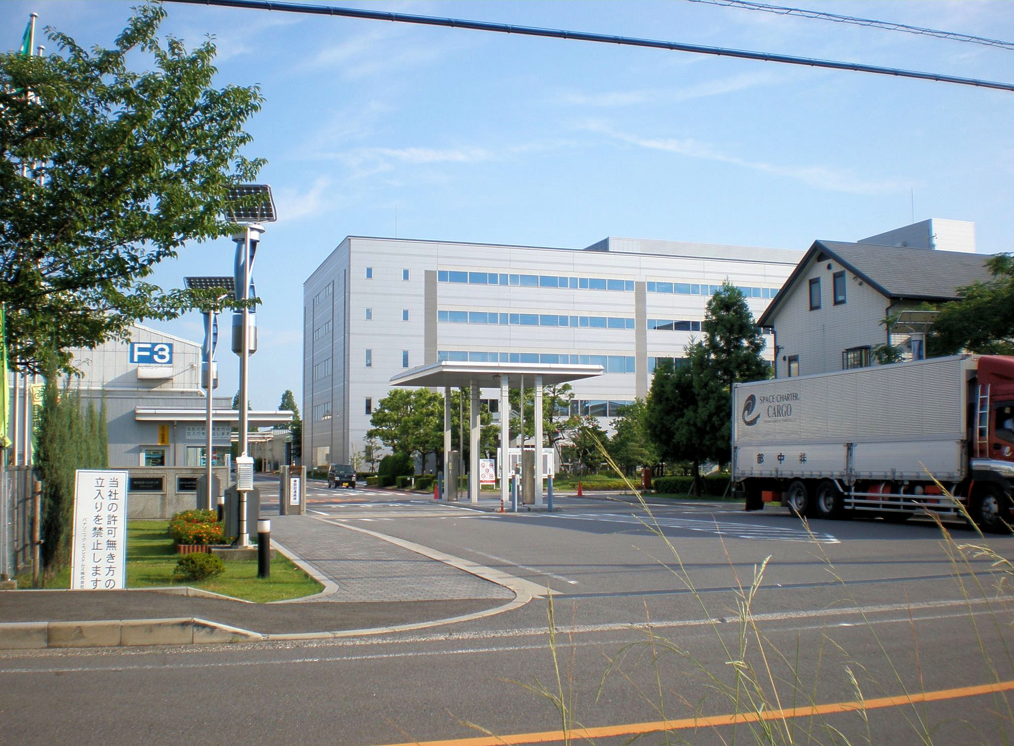 Panasonic Ecology Systems Co., Ltd